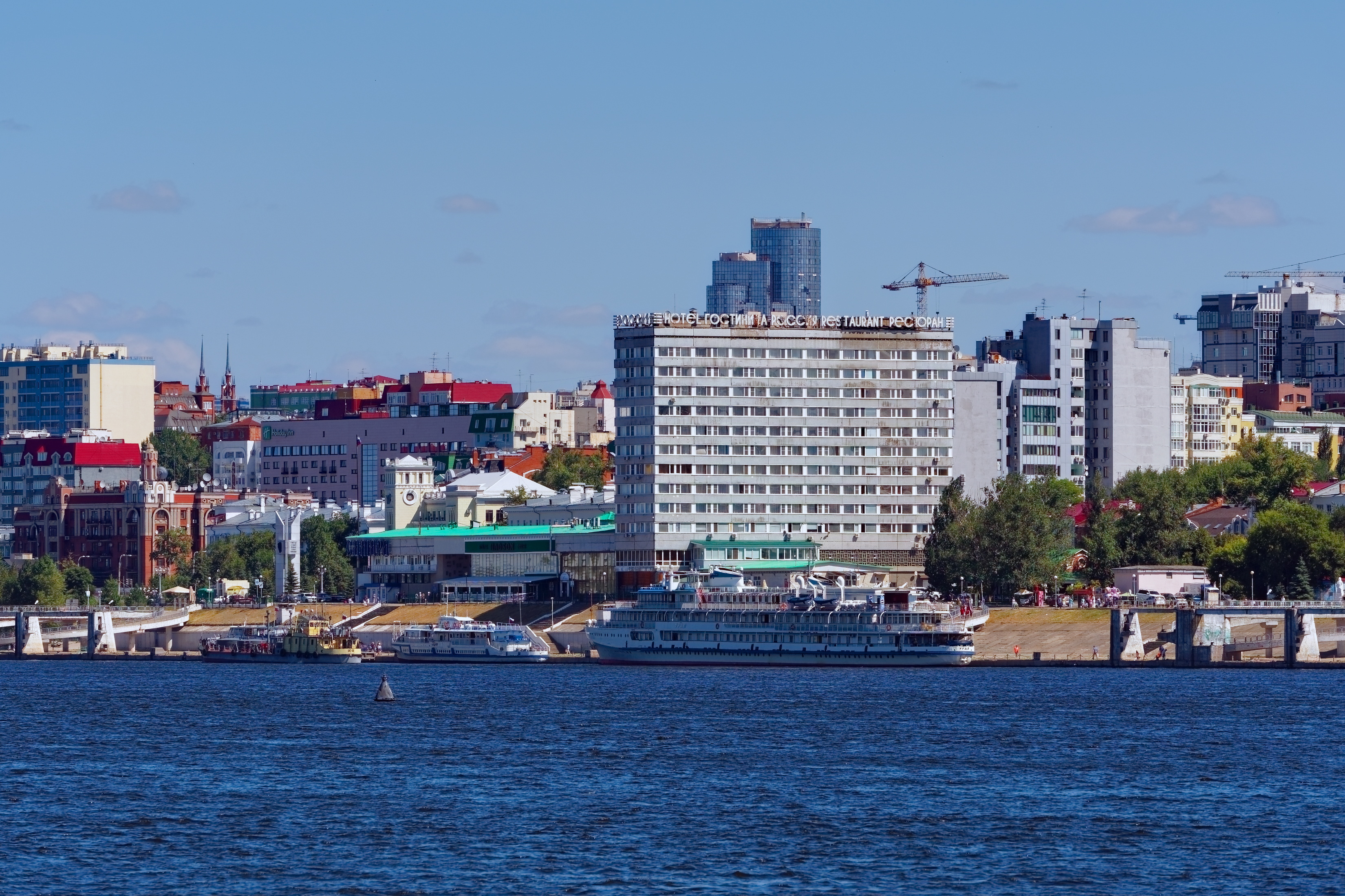 Samara